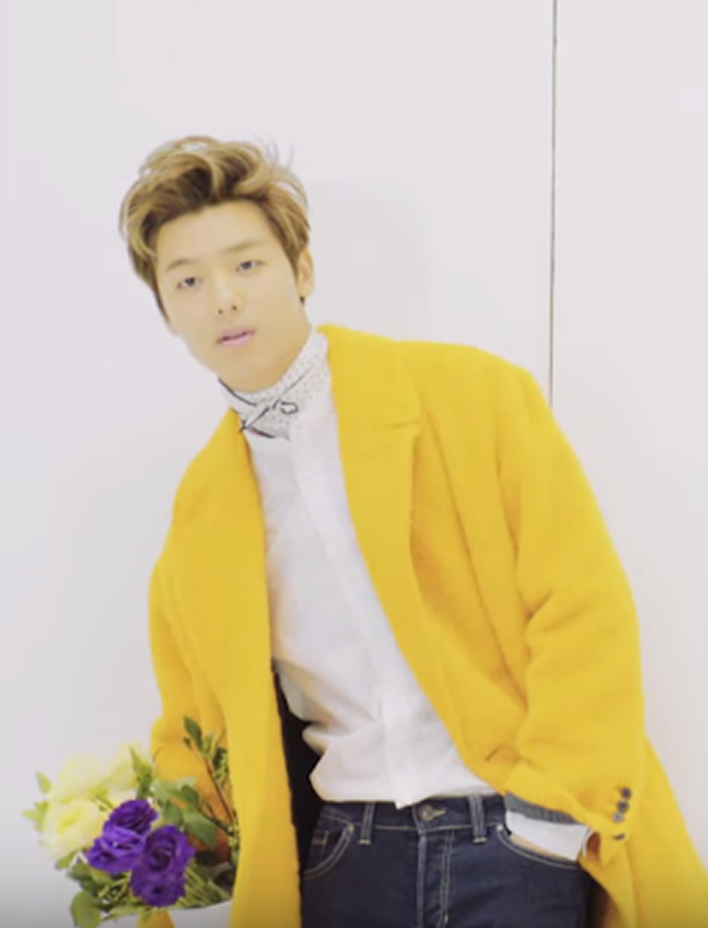 Kang Min-hyuk for Marie Claire Magazine September Issue 2015.